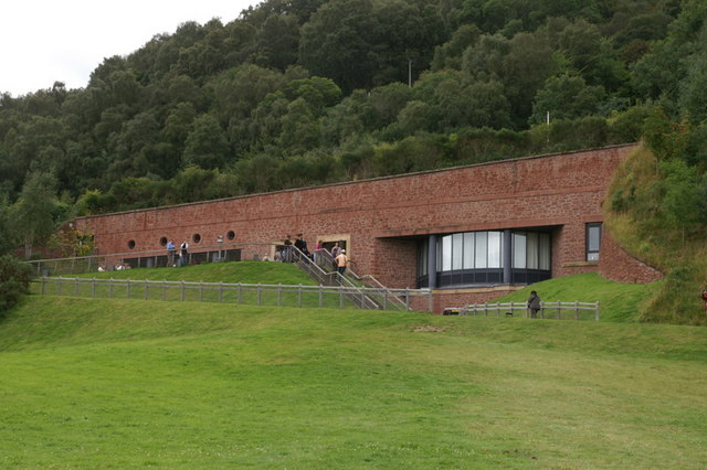 Urquhart Castle Visitor Centre Cleverly built into the hillside, with car park above it.